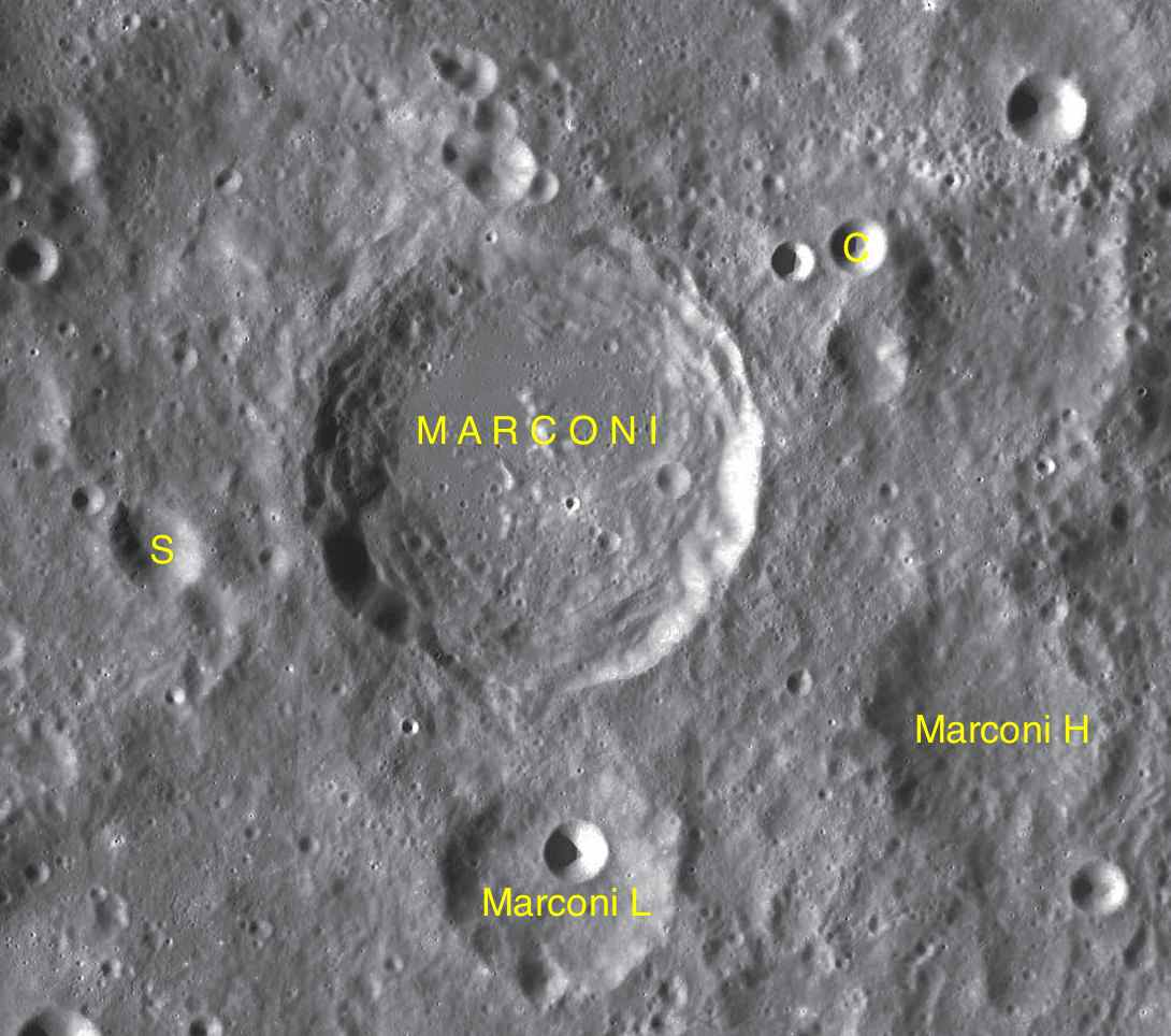 Part of the chart LAC-84 used for the presentation